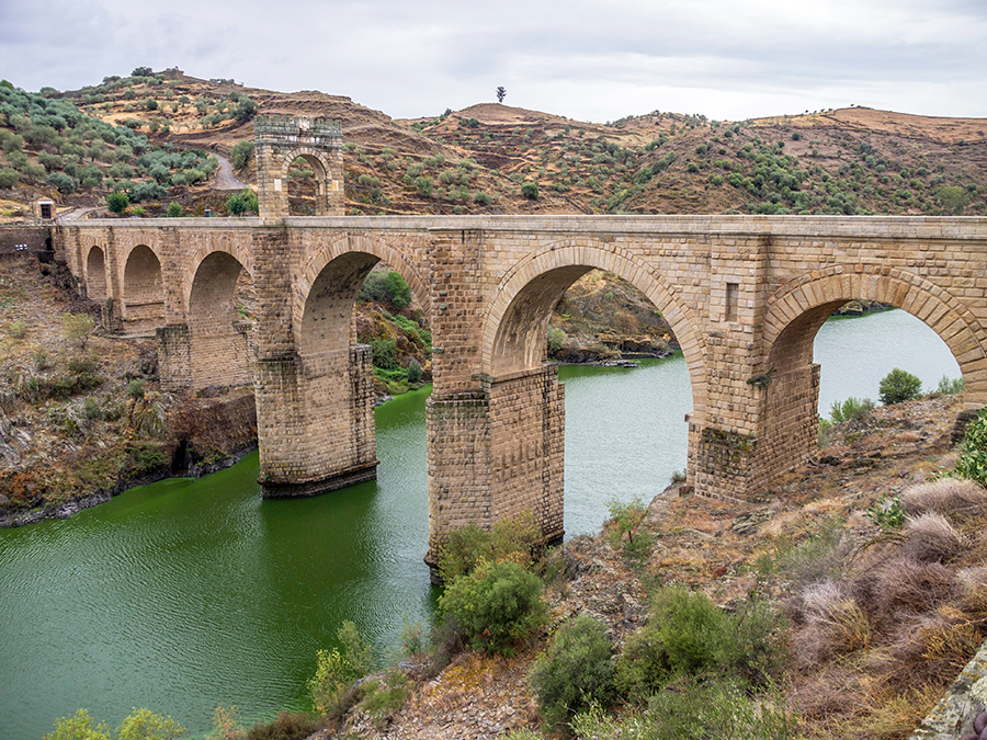 Puente romano de Alcántara.